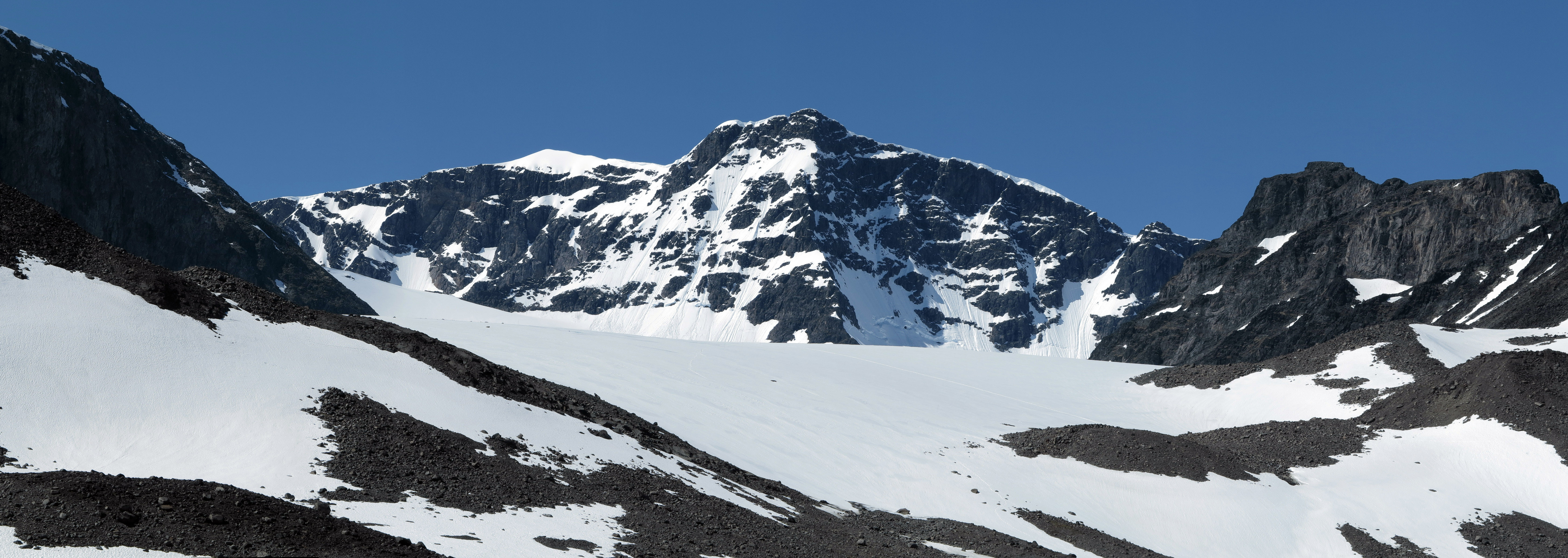 Kebnekaise as seen from Tarfala valley